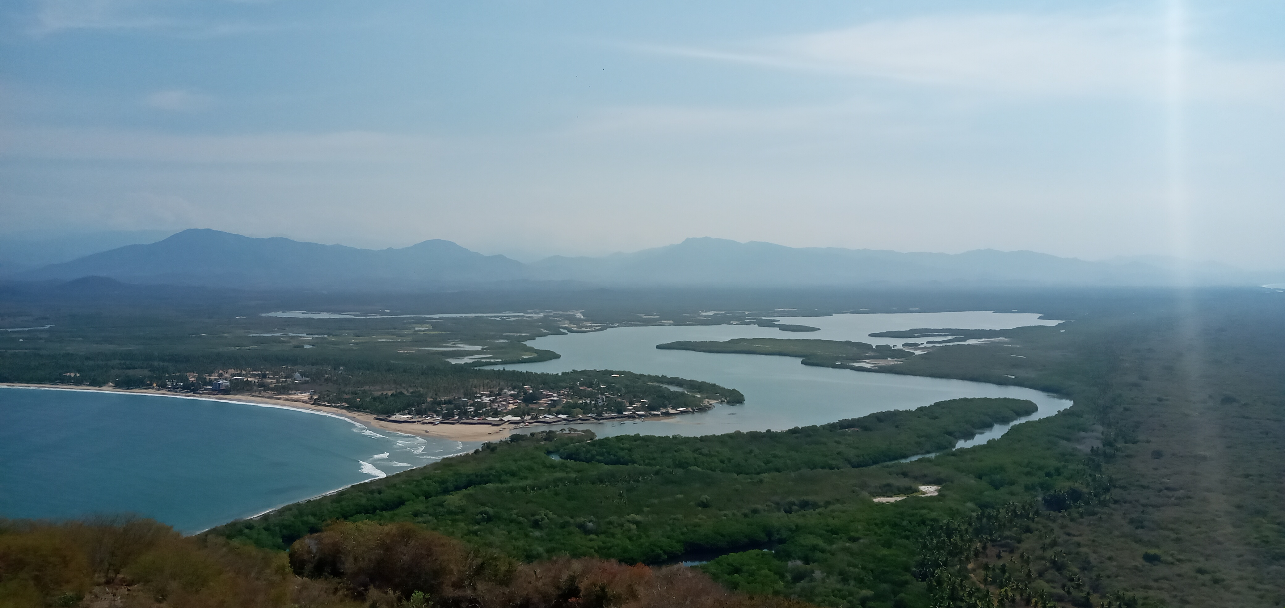 the village of Barra de Potosi, Guerrero, Mexico